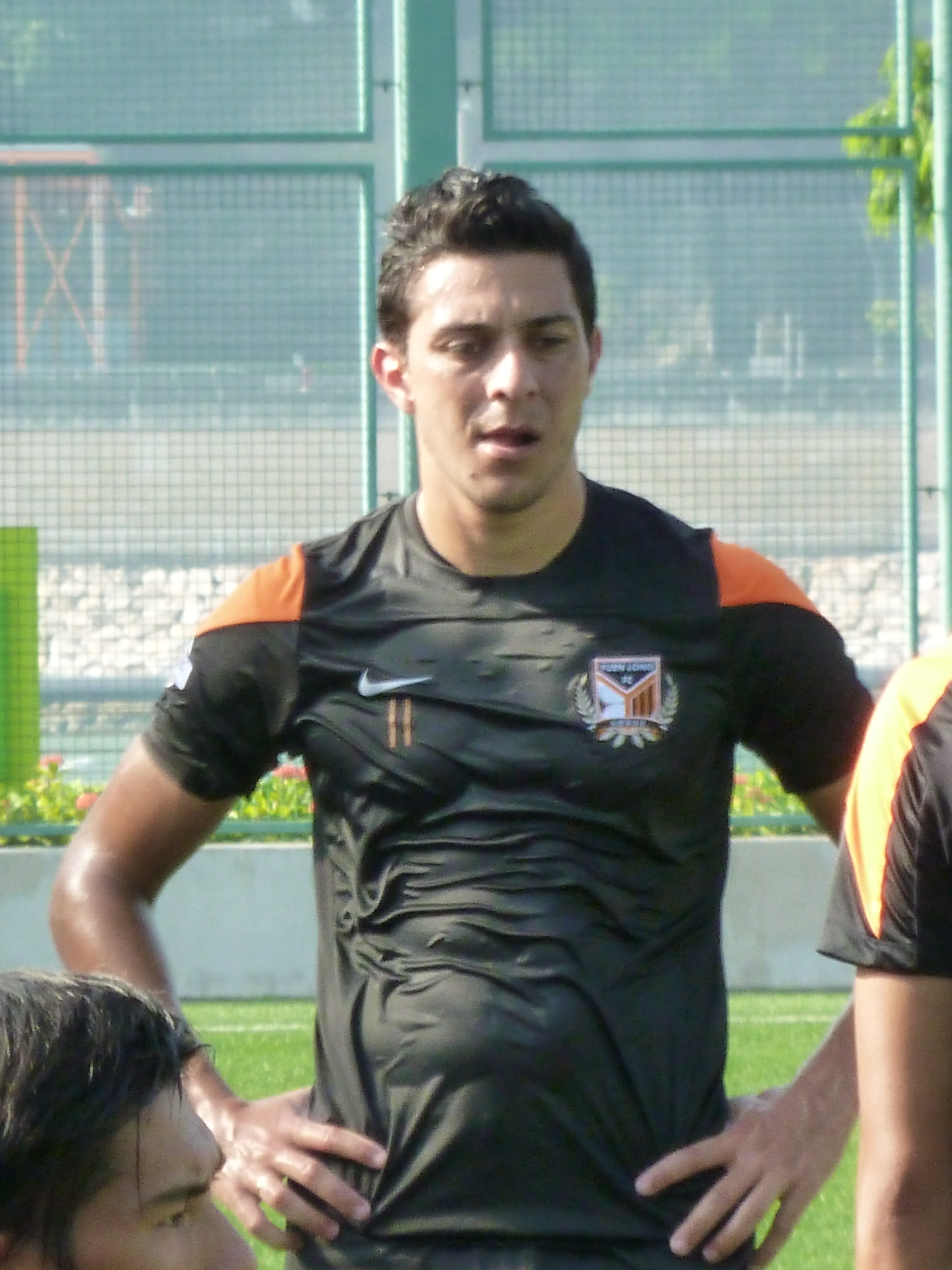 Wellingsson de Souza (9 Aug 2013, Friendly Match, Southern vs Yuen Long, Tsing Yi Northeast Park) 中文（香港）: 蘇沙 (9 Aug 2013, 友賽, 南區 vs 元朗, 青衣東北公園)